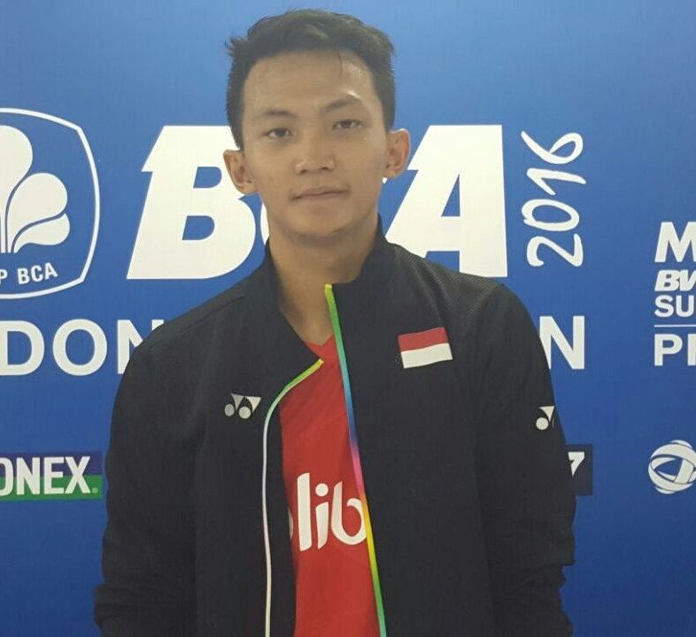 Ihsan Maulana Mustofa during a press conference at 2016 Indonesia Open Super Series Premier